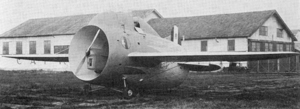 The Italian Stipa-Caproni experimental aircraft